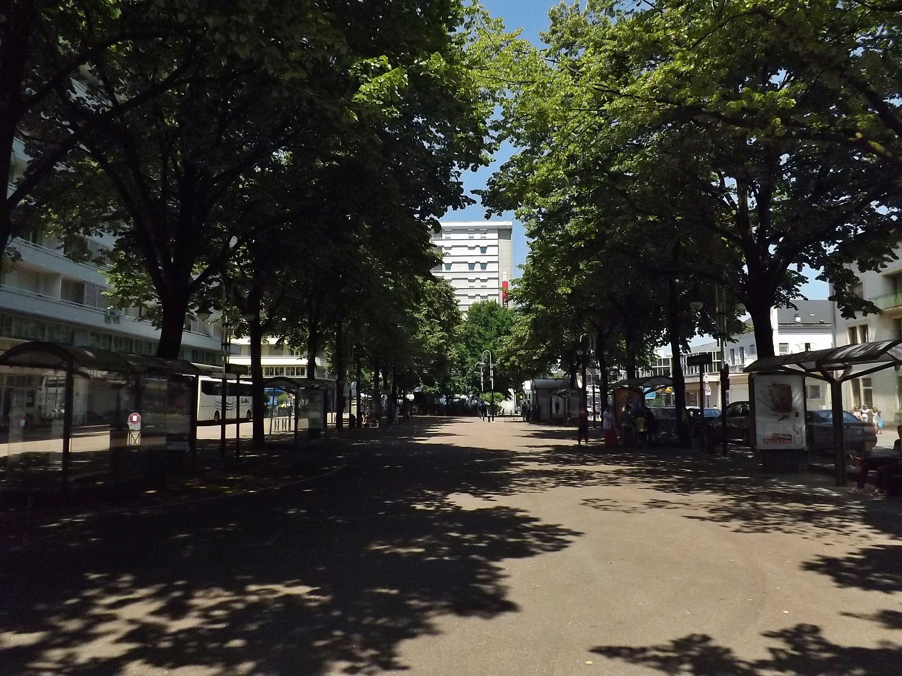 Sight of the place de la Gare of Chambéry (Savoie, France), used as bus station, before its closure in 2014.